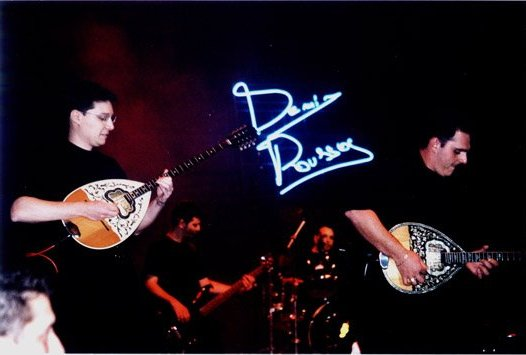 Laiki Kompania in Demis Roussos brazilian tour